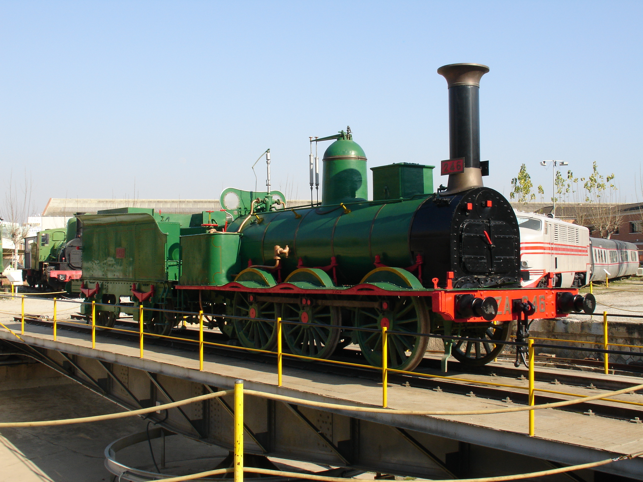 Locomotive manufactured in 1857 by Wilson. Is it "E. B. Wilson and Company" or "Gilkes Wilson and Company" ?